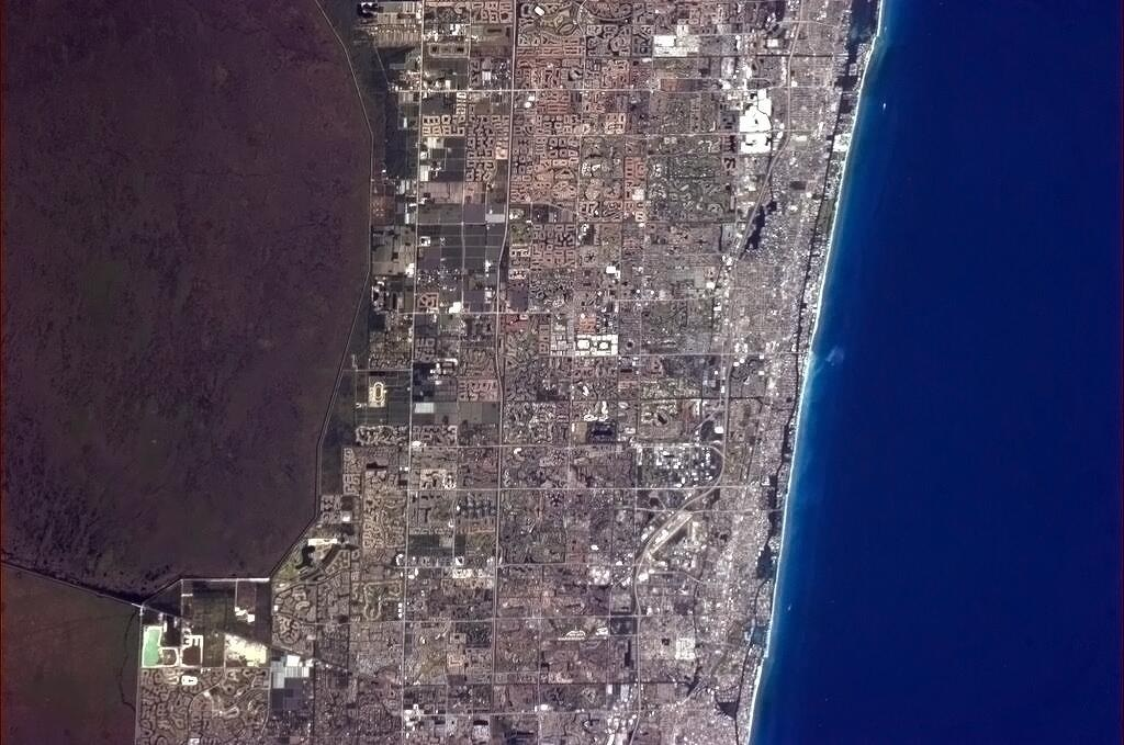 "A shoehorned band of development at the north end of Miami, between nature and the sea." Caption by astronaut Chris Hadfield on board the International Space Station. Boca Raton is in the southeast, Boynton Beach is in the northeast, Loxahatchee National Wildlife Refuge is to the west.